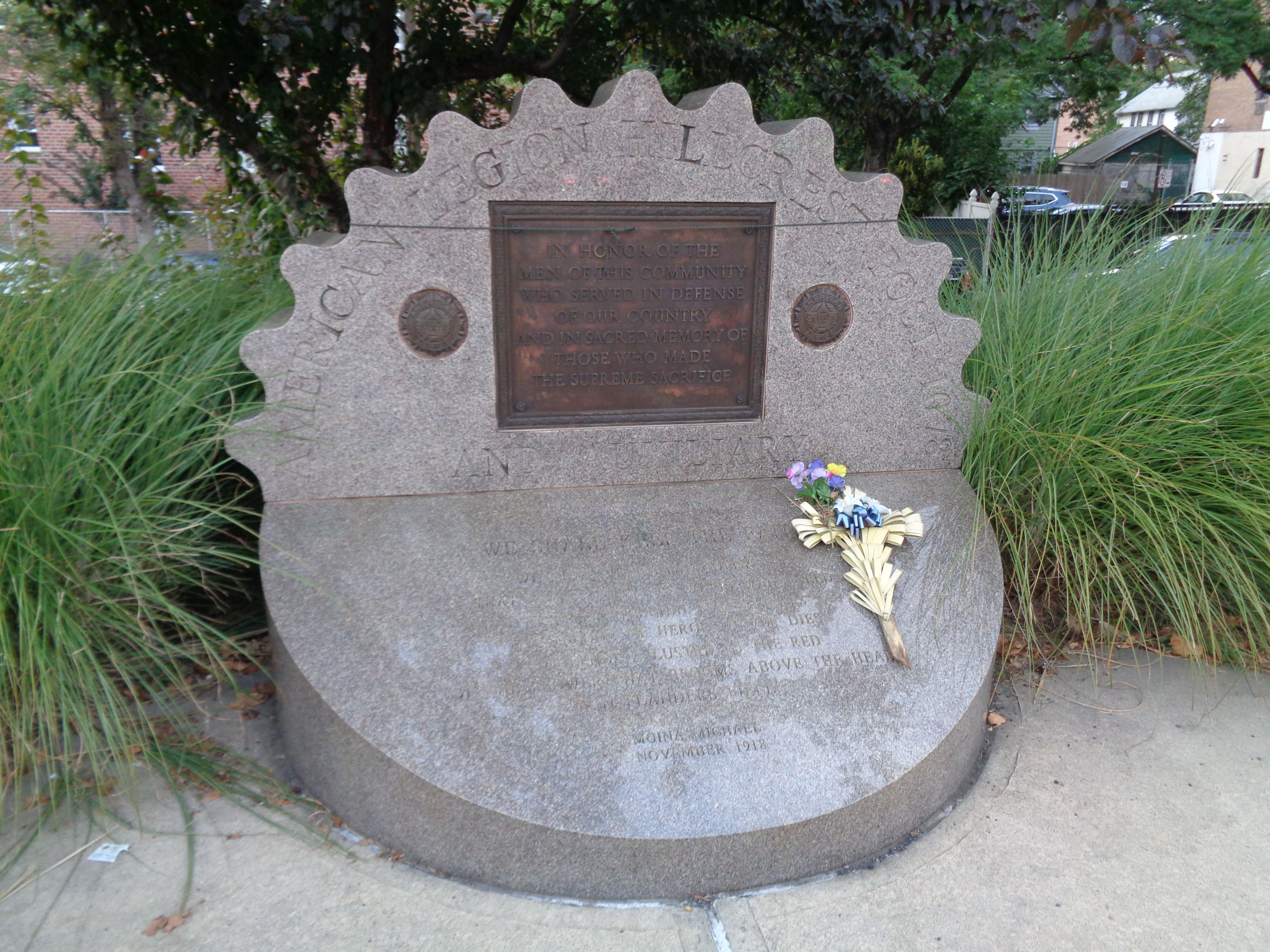 Hillcrest Veterans Square, a park triangle on the north side of Union Turnpike at 162nd Street (near 164th Street) in Hillcrest, Queens.